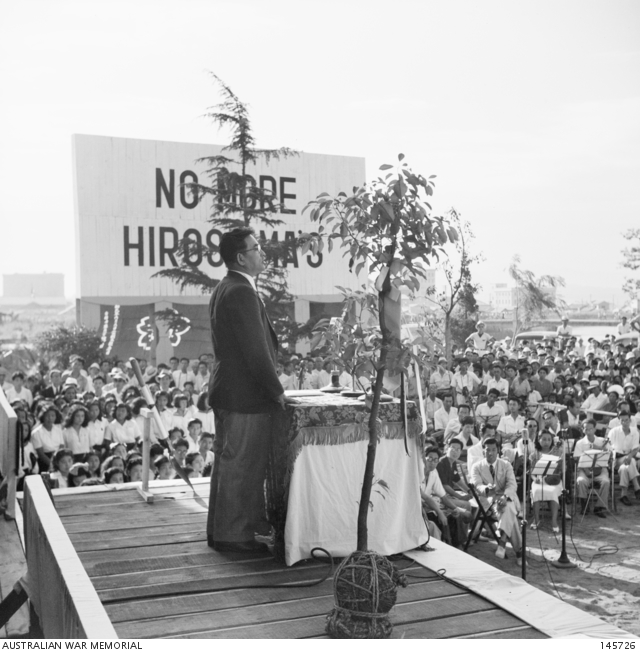 The citizens of Hiroshima and members of the Occupation Force and Occupation Force civilians are addressed by Kusunose Tsunei, governor of Hiroshima Prefecture. He is dedicating the city to Peace. "No More Hiroshimas" appears on a board erected by the banks of the Ota-Gawa (river).